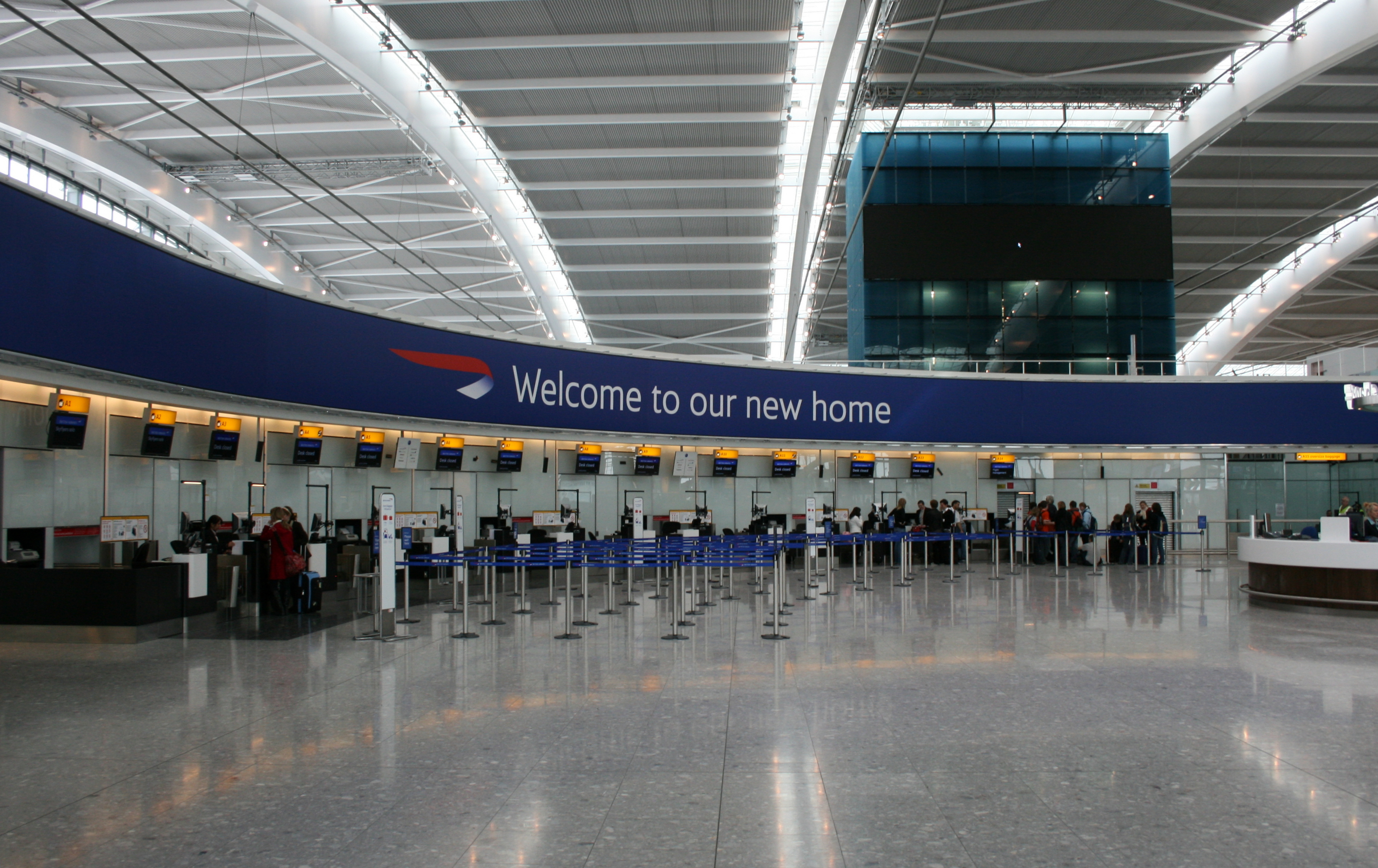 Terminal 5 at London Heathrow Airport